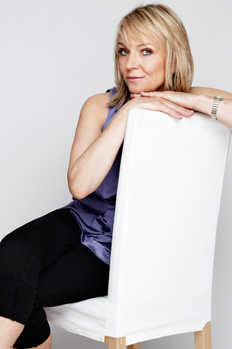 Helen Fielding in 2009